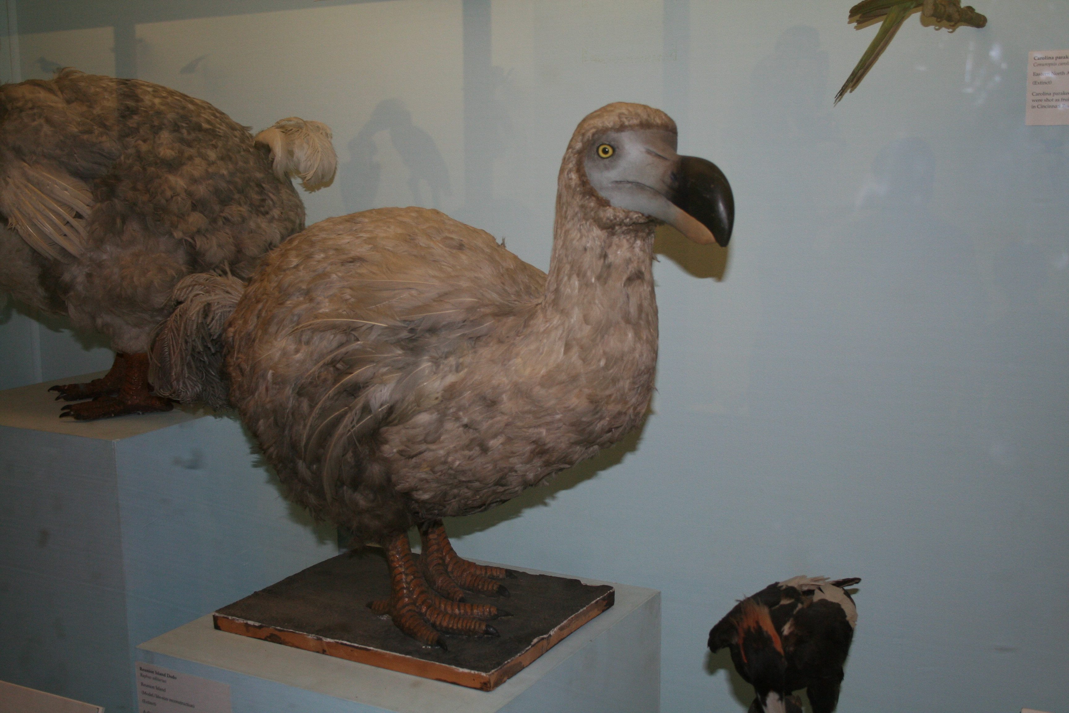 Dodo (Raphus cucullatus), Natural History Museum, London, England